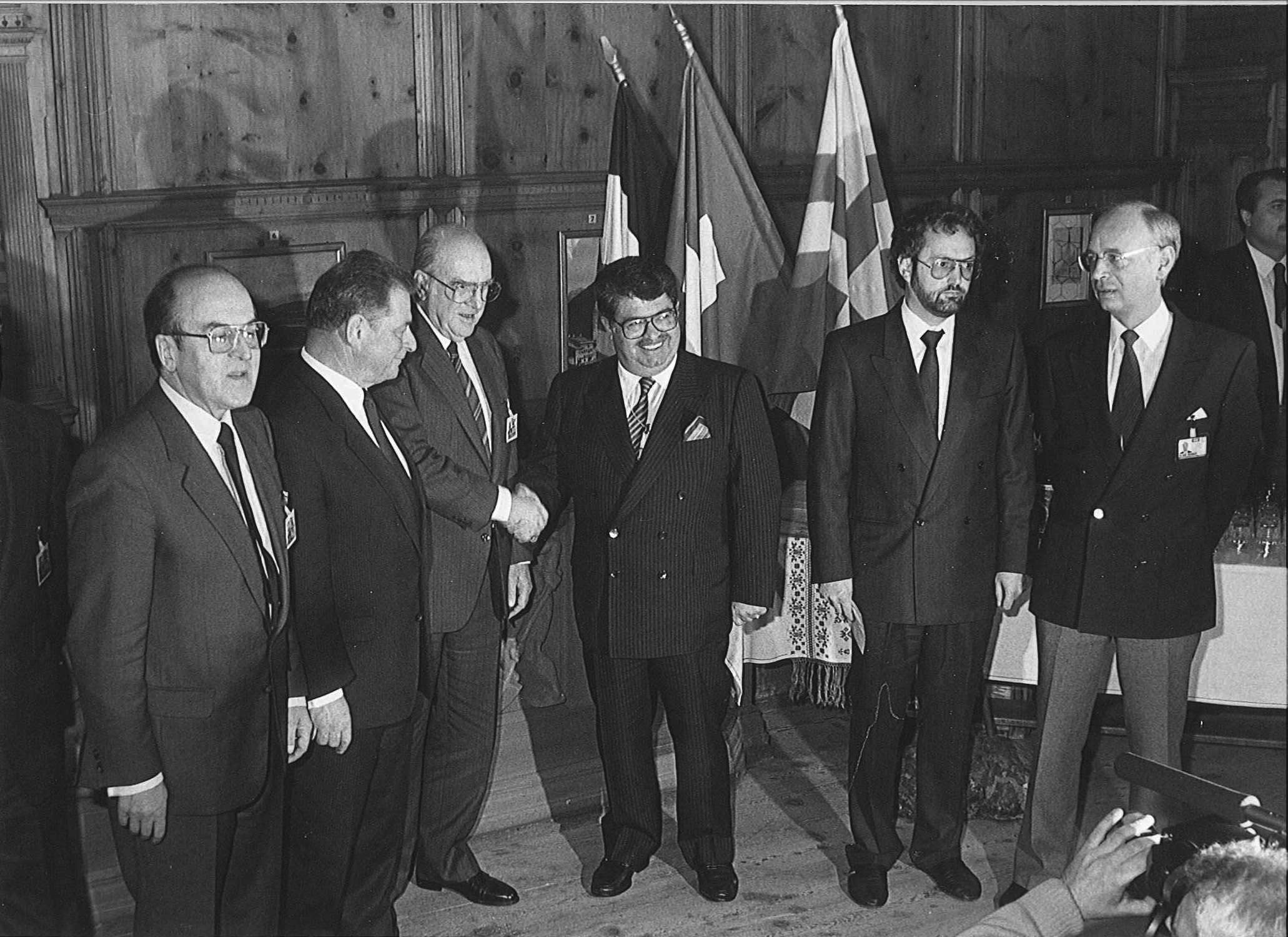 DAVOS/SWITZERLAND, 31 JAN 1988 - The Davos Declaration, a historic handshake between the Turkish and Greek Prime Ministers. (fltr) Kurt Furgler, Chairman of the Annual Meeting; Jean-Pascal Delamuraz, Swiss Federal Councillor; Prime Minister Andreas Papandreou of Greece; Prime Minister Turgut Özal of Turkey; Luzius Schmid, Mayor of Davos; and Klaus Schwab captured at the Davos Town Hall during the European Management Forum, the predecessor of the World Economic Forum in Davos in 1988.